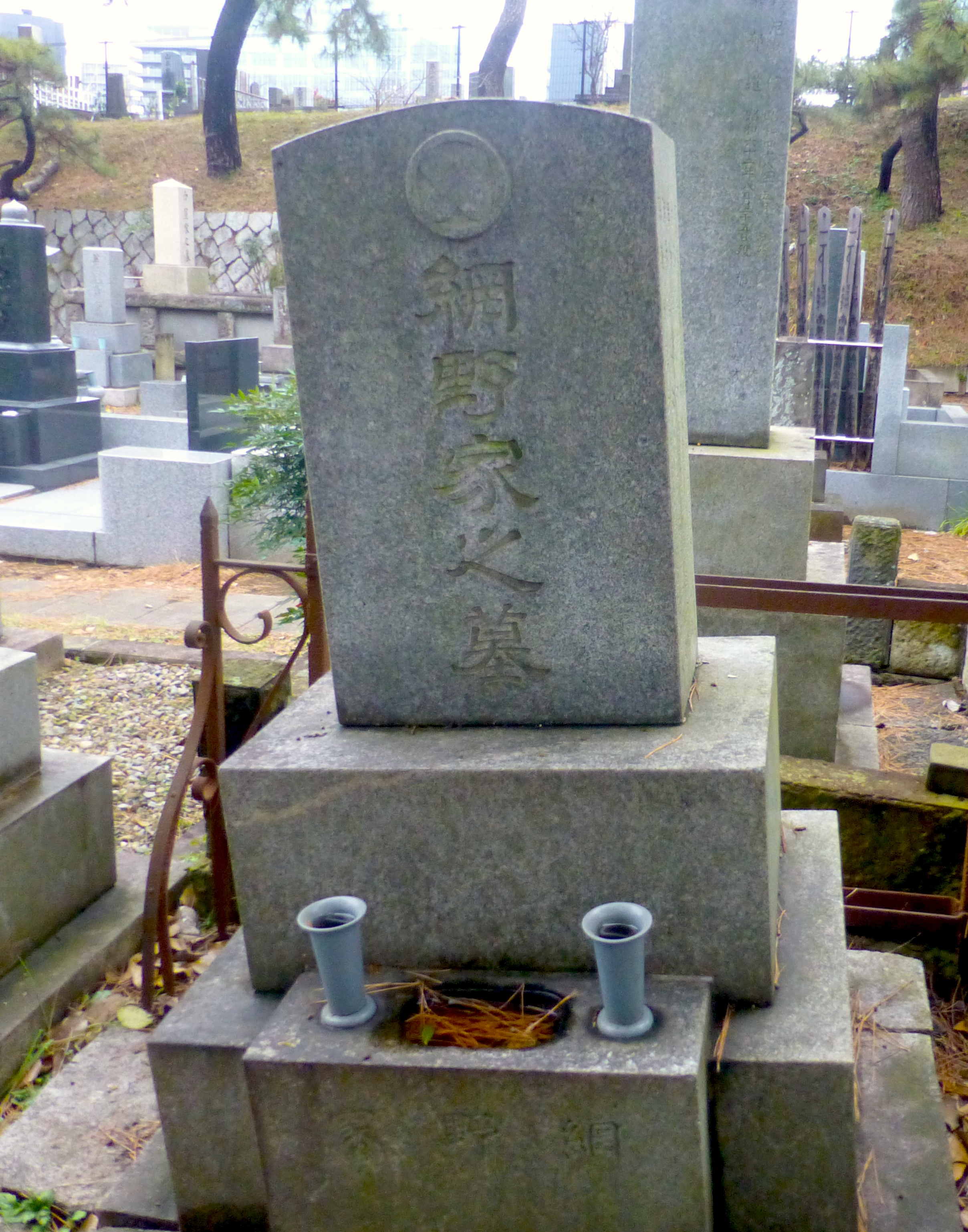 青山霊園で網野家の墓 (Amino family grave at Aoyama Cemetery)